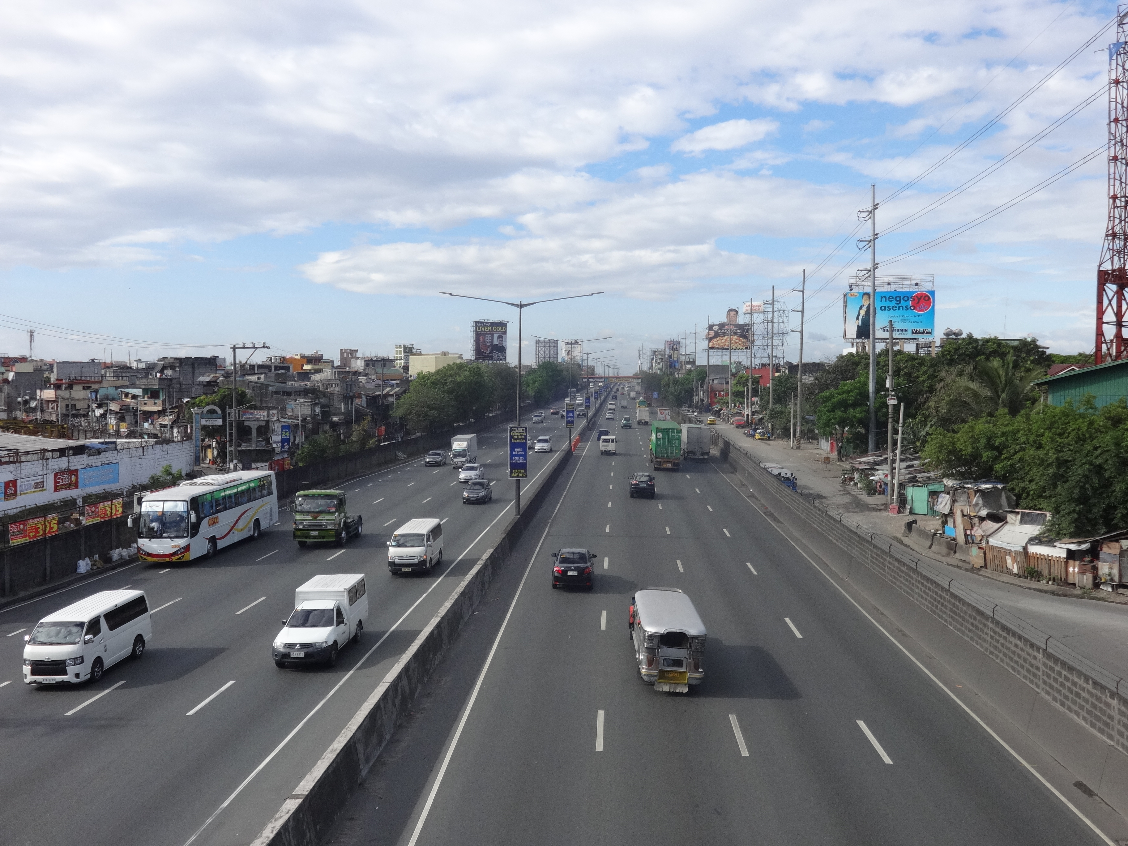 A portion of North Luzon Expressway (NLEX) near Balintawak cloverleaf in Quezon City